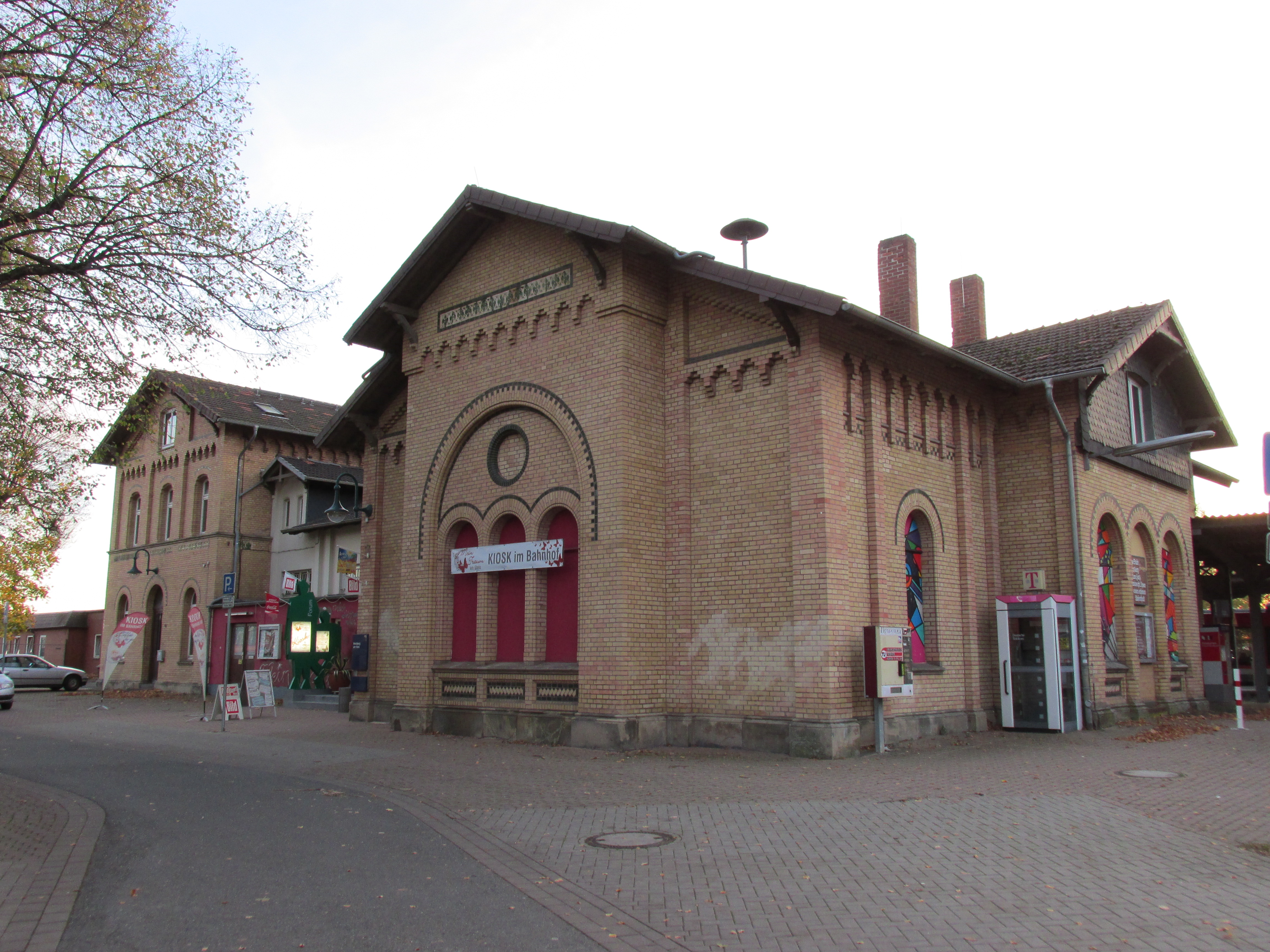 Herzberg (Harz) railway station, Herzberg am Harz, Germany check usage Address Bahnhofstraße 44 37412 Herzberg am Harz Germany Date31 October 2013SourceOwn work. (→ weitere 1,936 Bilder von mir in der Galerie)AuthorStefan FlöperPermission (Reusing this file) cc-by-sa-3.0, gfdl 1.2+